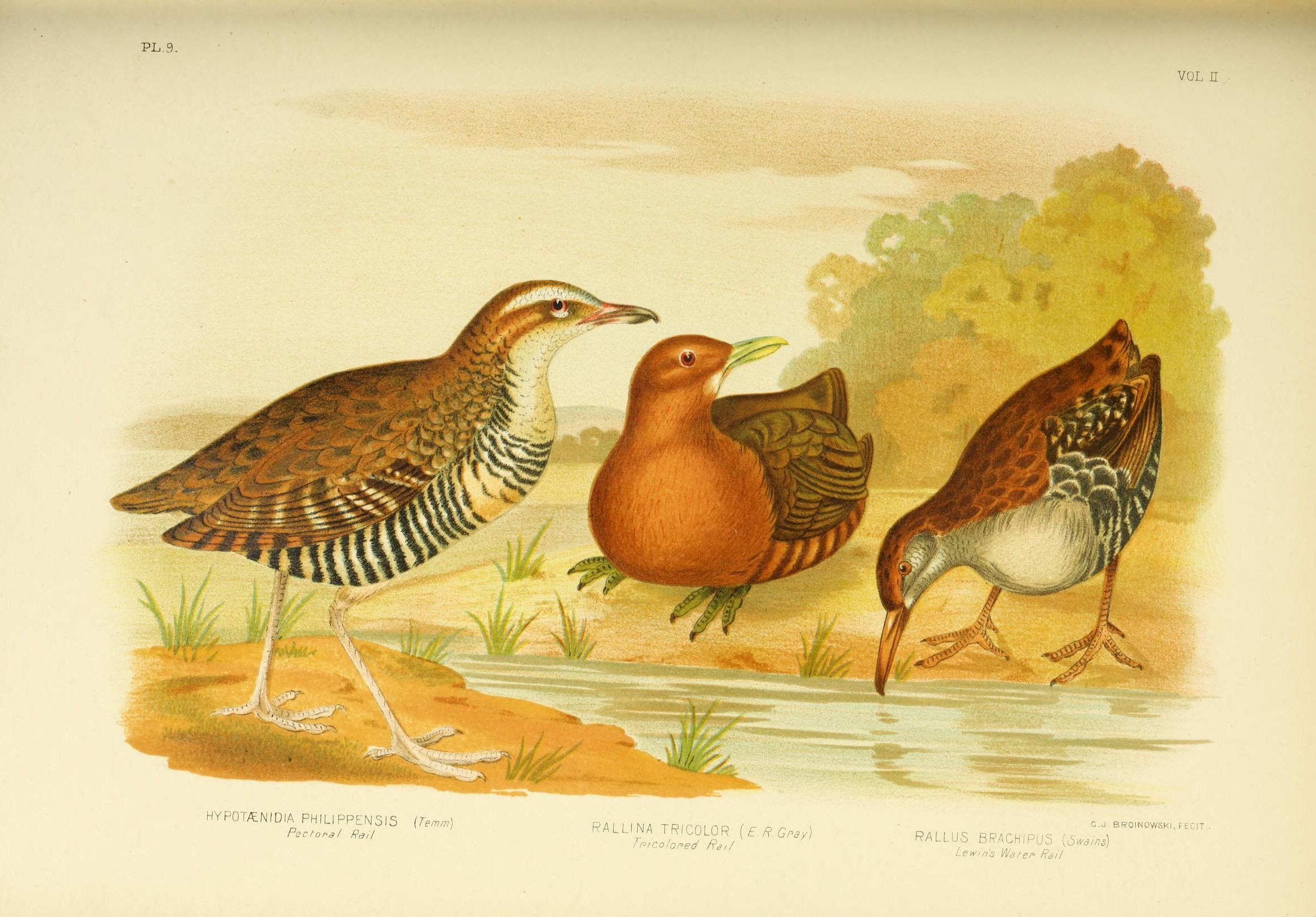 The birds of Australia